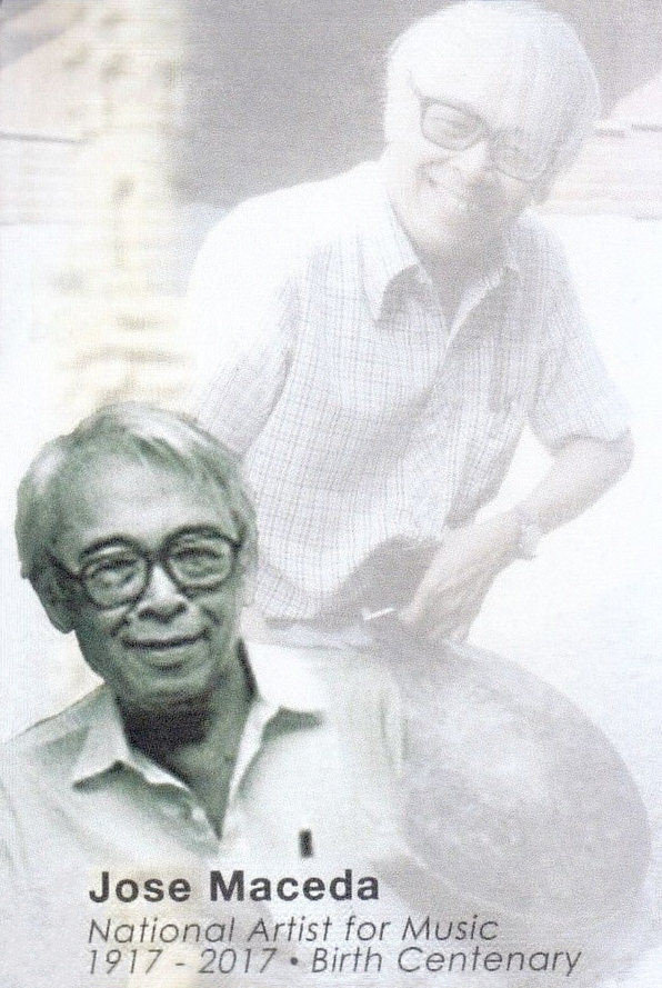 National Artists of the Philippines Birth Centennials, José Maceda